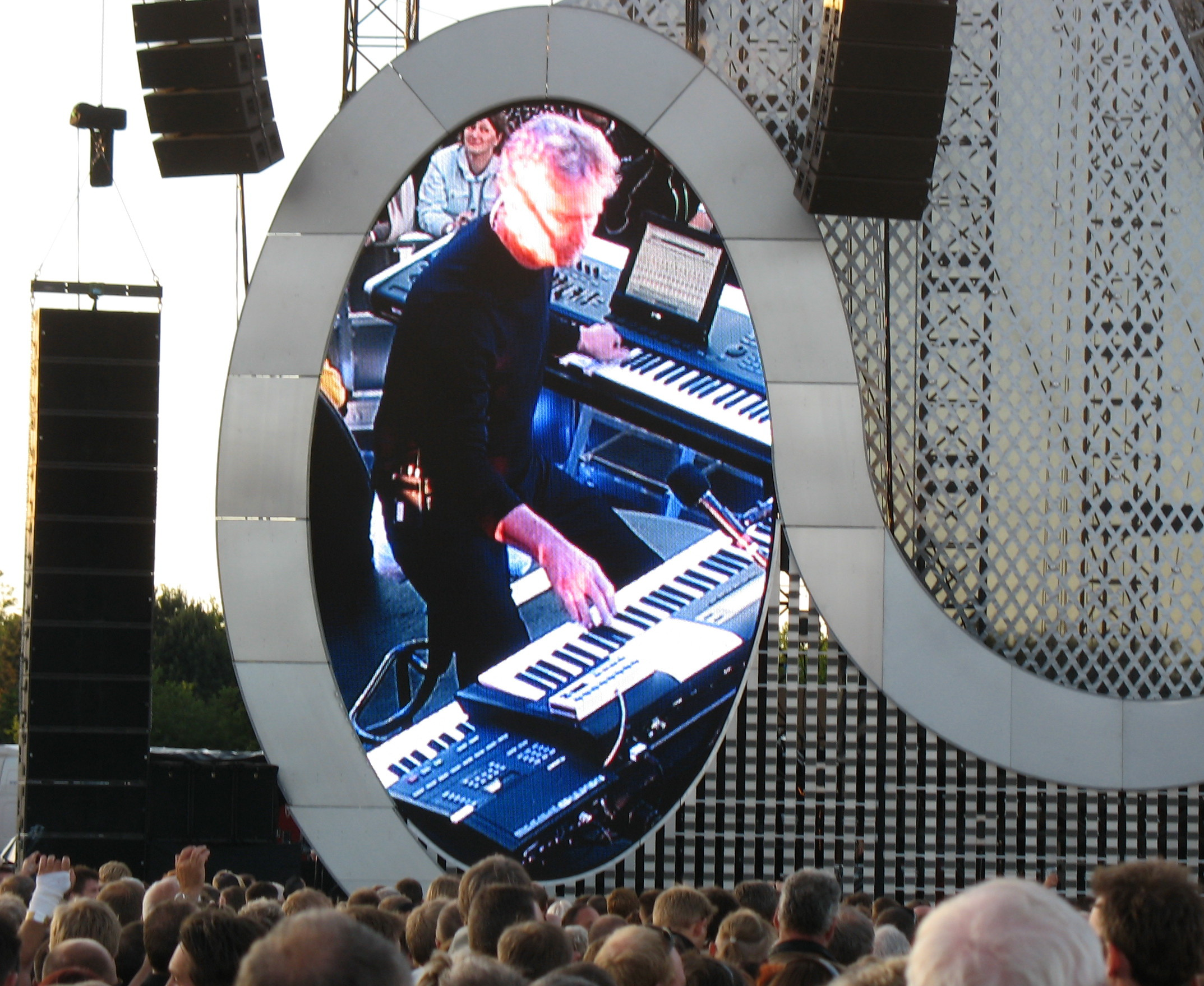 Tony Banks, keyboards, backing vocals Genesis